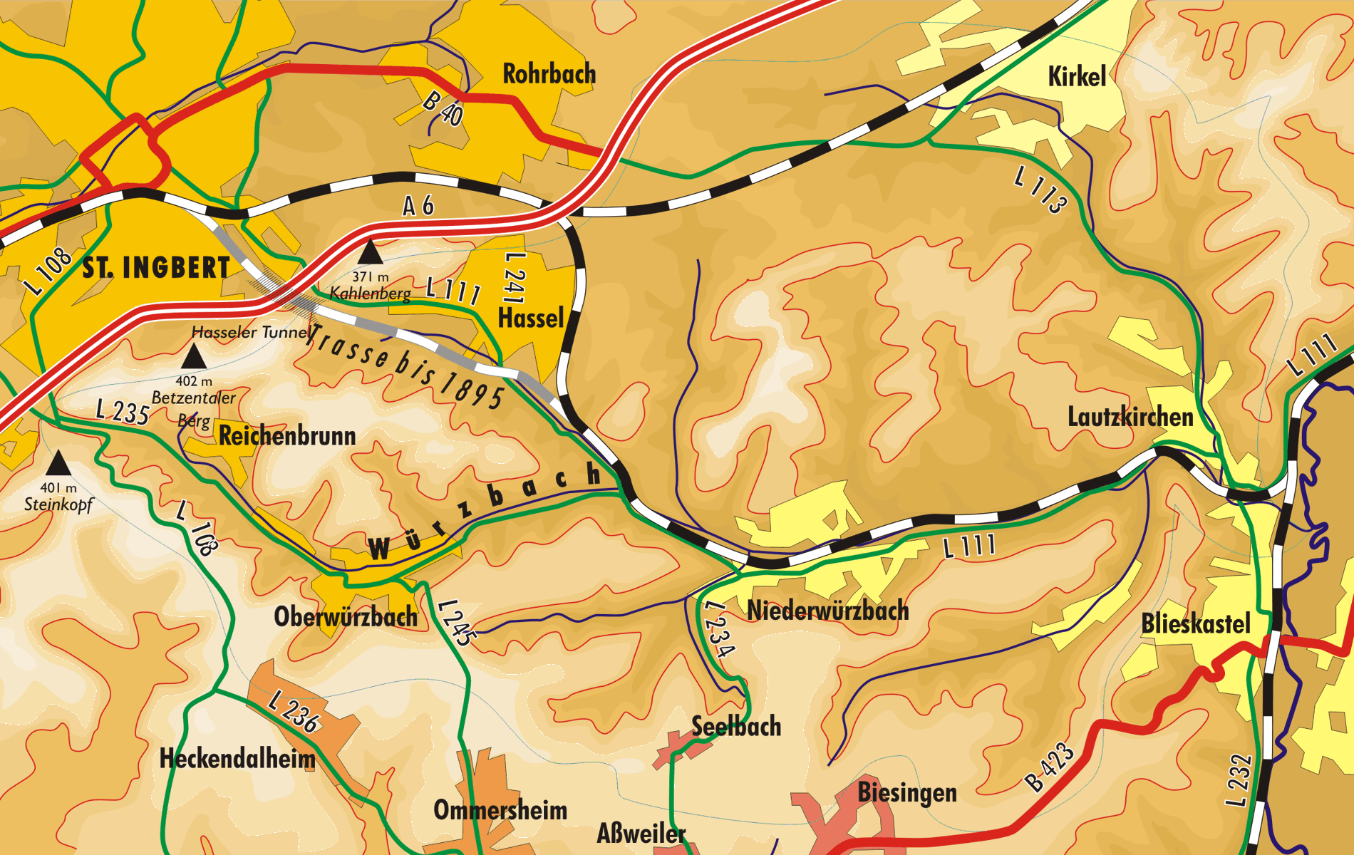 map of railway-junction near St. Ingbert, Saarland, Germany